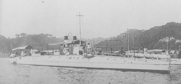 Japanese torpedo boat No.14, at Yokosuka Naval Base(inferred).